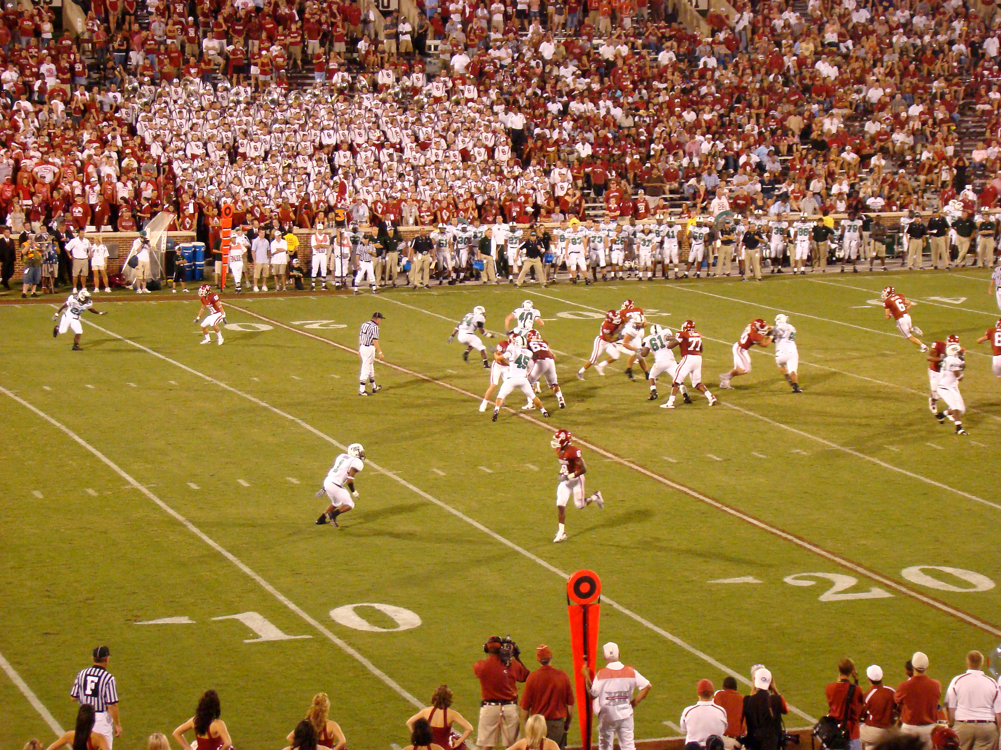 The Oklahoma Sooners football team takes on the North Texas Mean Green. Keith Nichol (#6) is playing quarterback for Oklahoma.